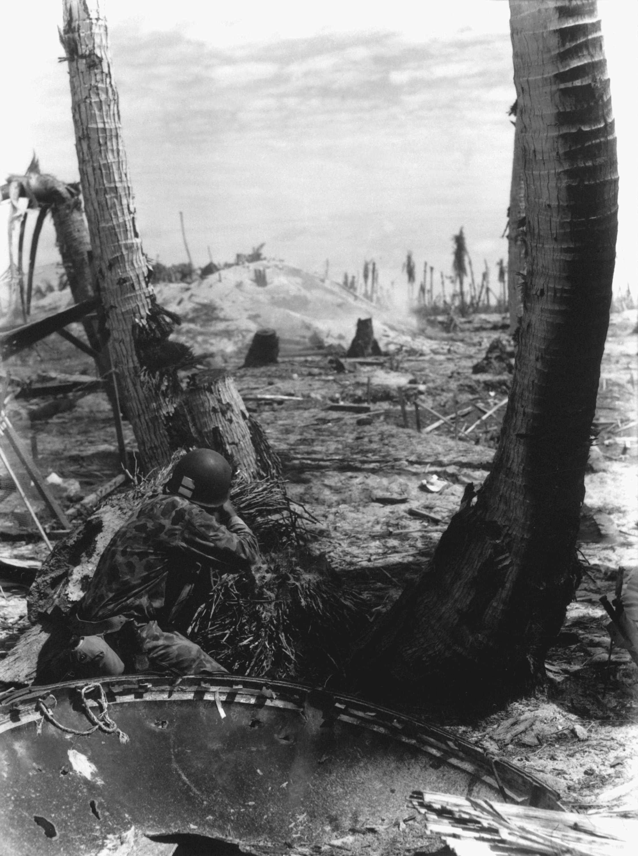 Taking the slim protection that a blasted tree affords, this Marine picks-off the Japs in a pill box. A Jap in a pill box must be shot through the small opening he uses to sight through, but that didn't bother this Marine on Tarawa. VIRIN: HD-SN-99-02842